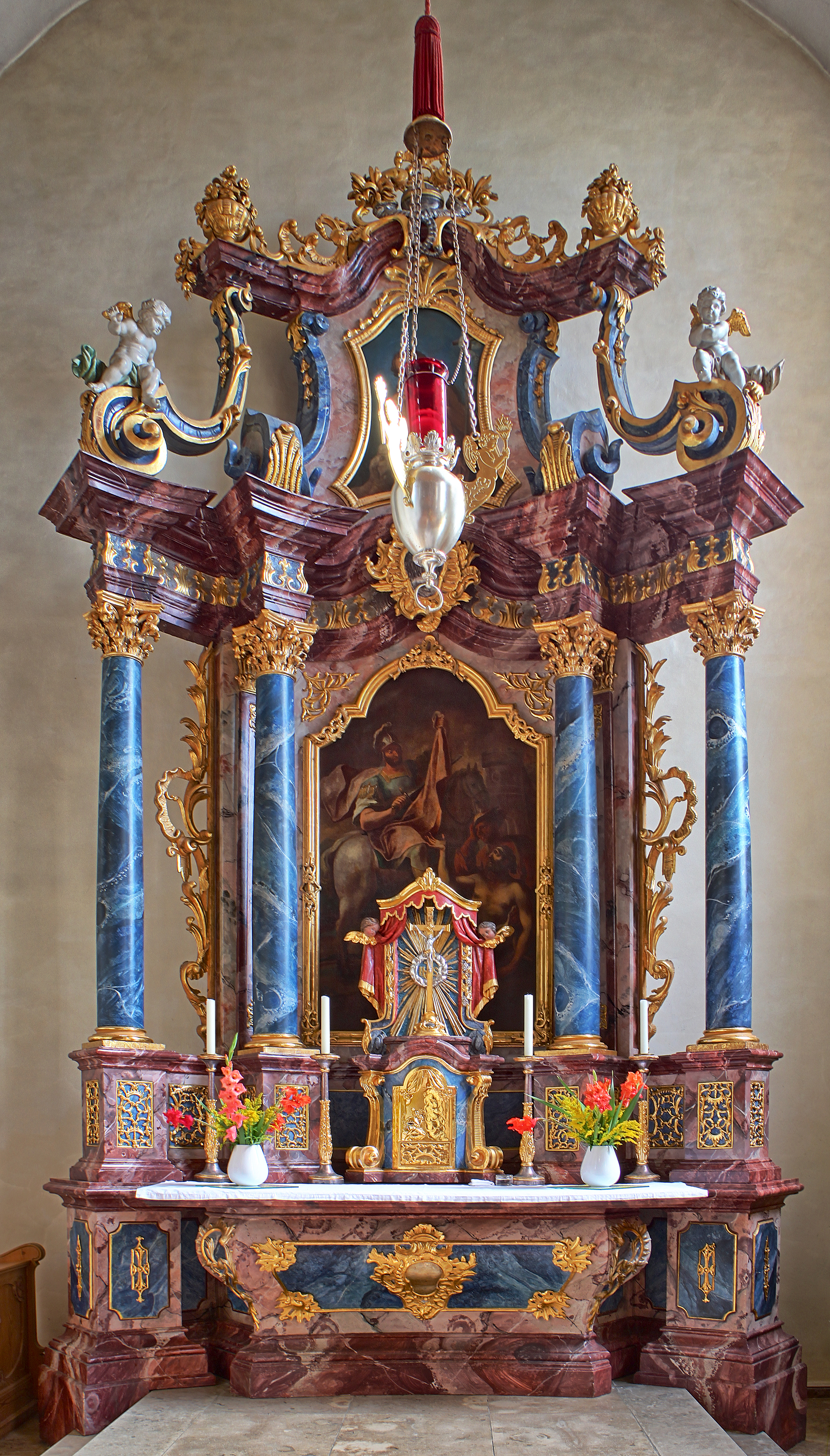 Main altar by Johann Christoph Feinlein of the catholic church St. Martin in Stühlingen-Grimmelshofen, Germany. The altar was created in 1682.